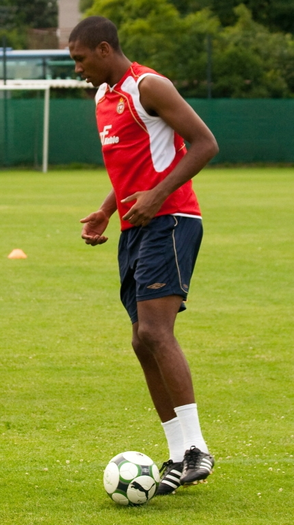 Marcelo Antônio Guedes Filho